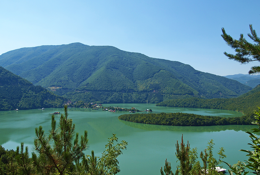 The Lake Reservoir of Vacha Dam in Bulgaria